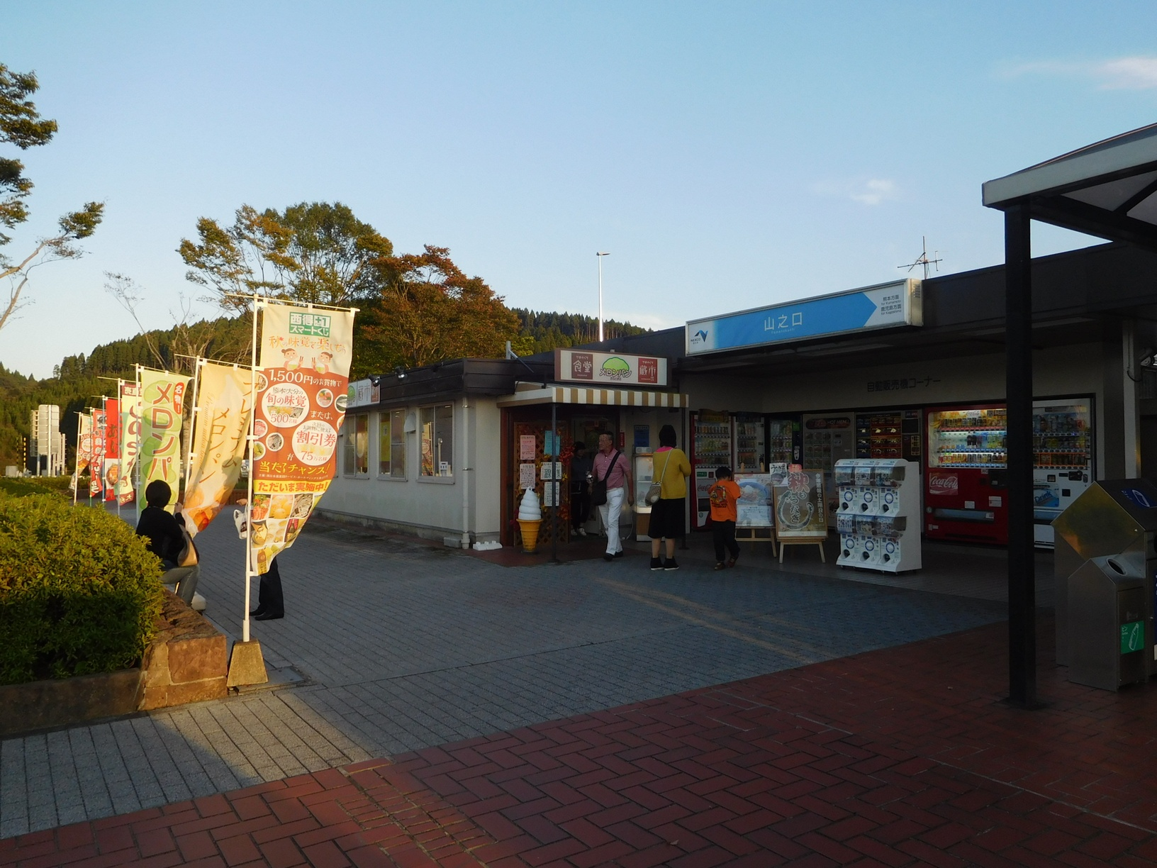 Yamanokuchi Rest Area Southern Side (Miyazaki Expressway - Yamanokuchi, Miyakonojo City, Miyazaki, Japan)